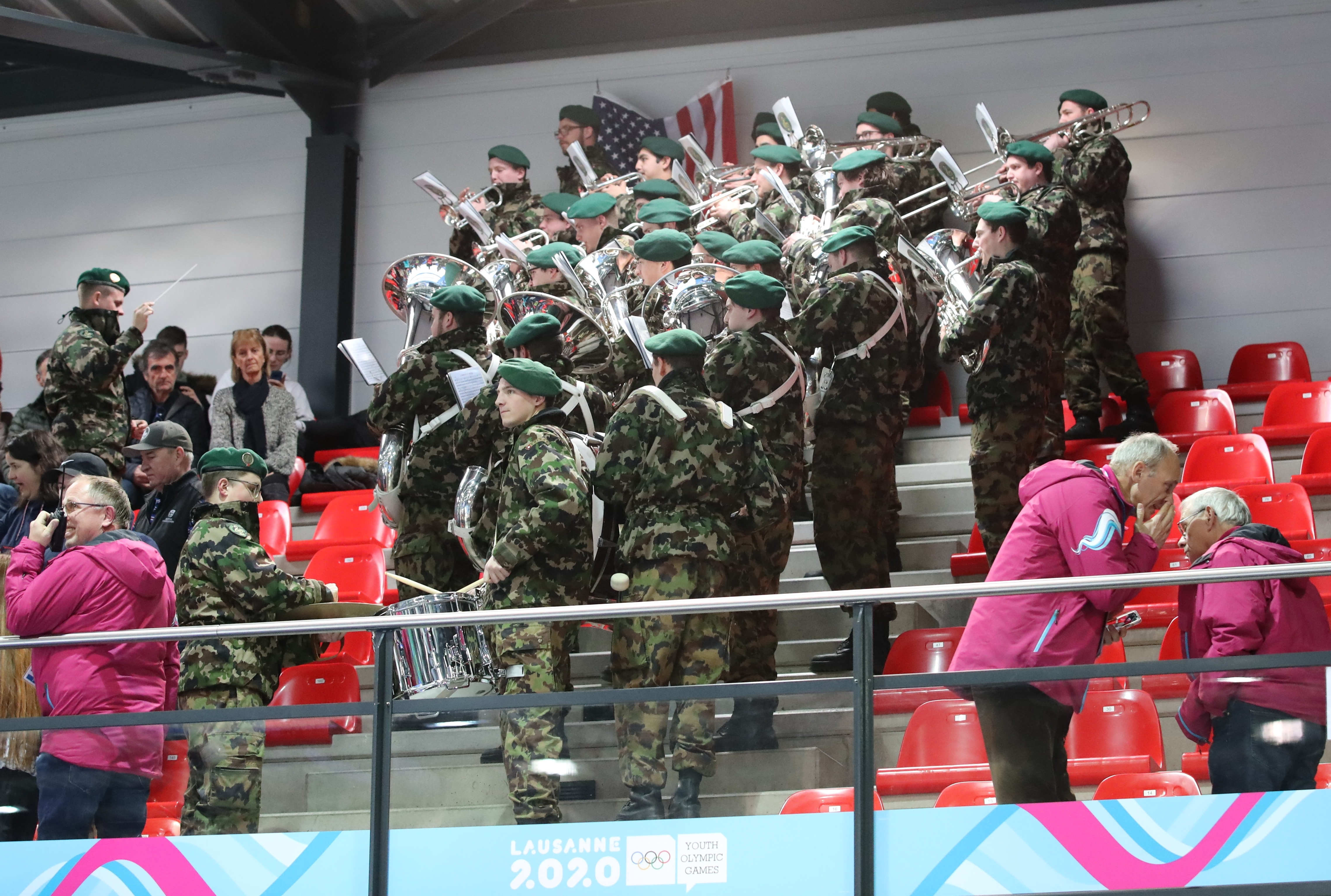 Curling Mixed Team Medal Ceremony at the 2020 Winter Youth Olympics in Lausanne on 16 January 2020.